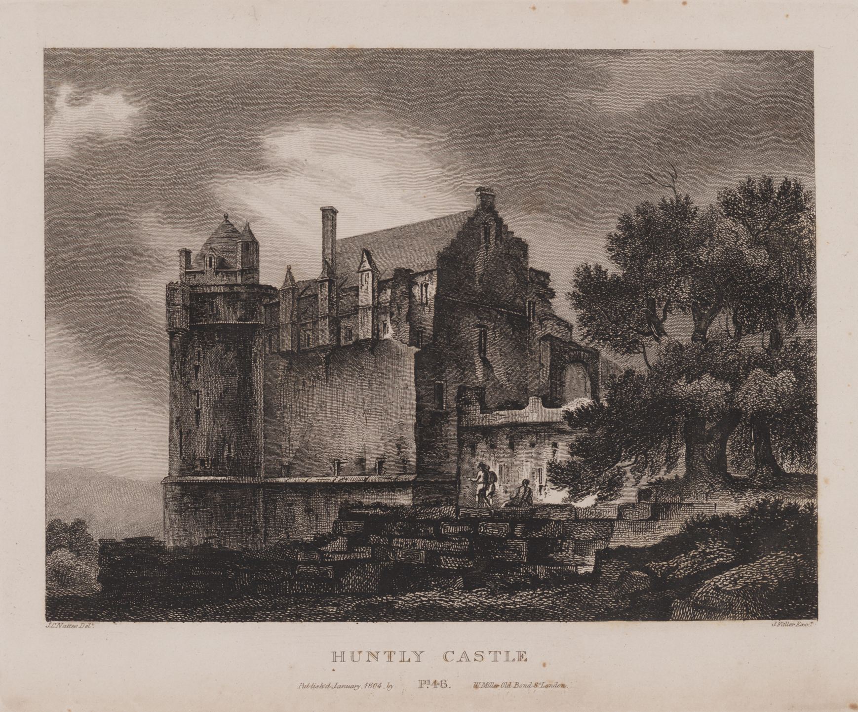 Plate XLVI/b - John Claude Nattes made drawings of suitable scenes on the spot; etchings are by James Fittler.